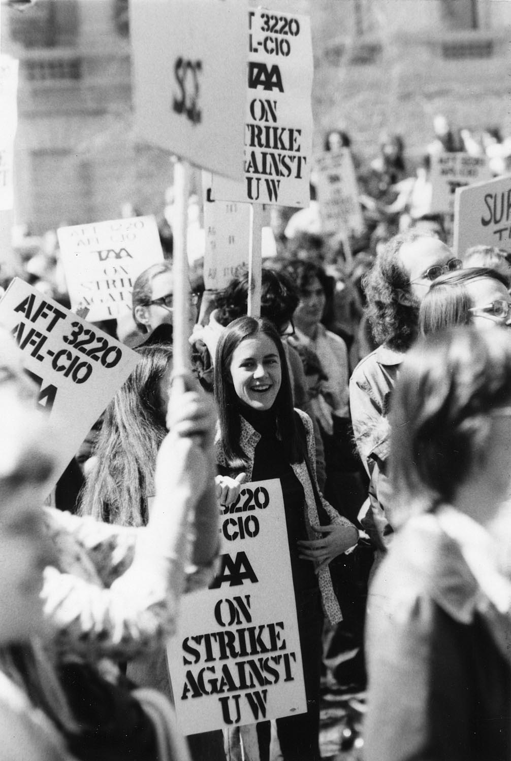 Photograph of the TAA Strike, 1970. Local Identifier: UW.uwar00194.bib